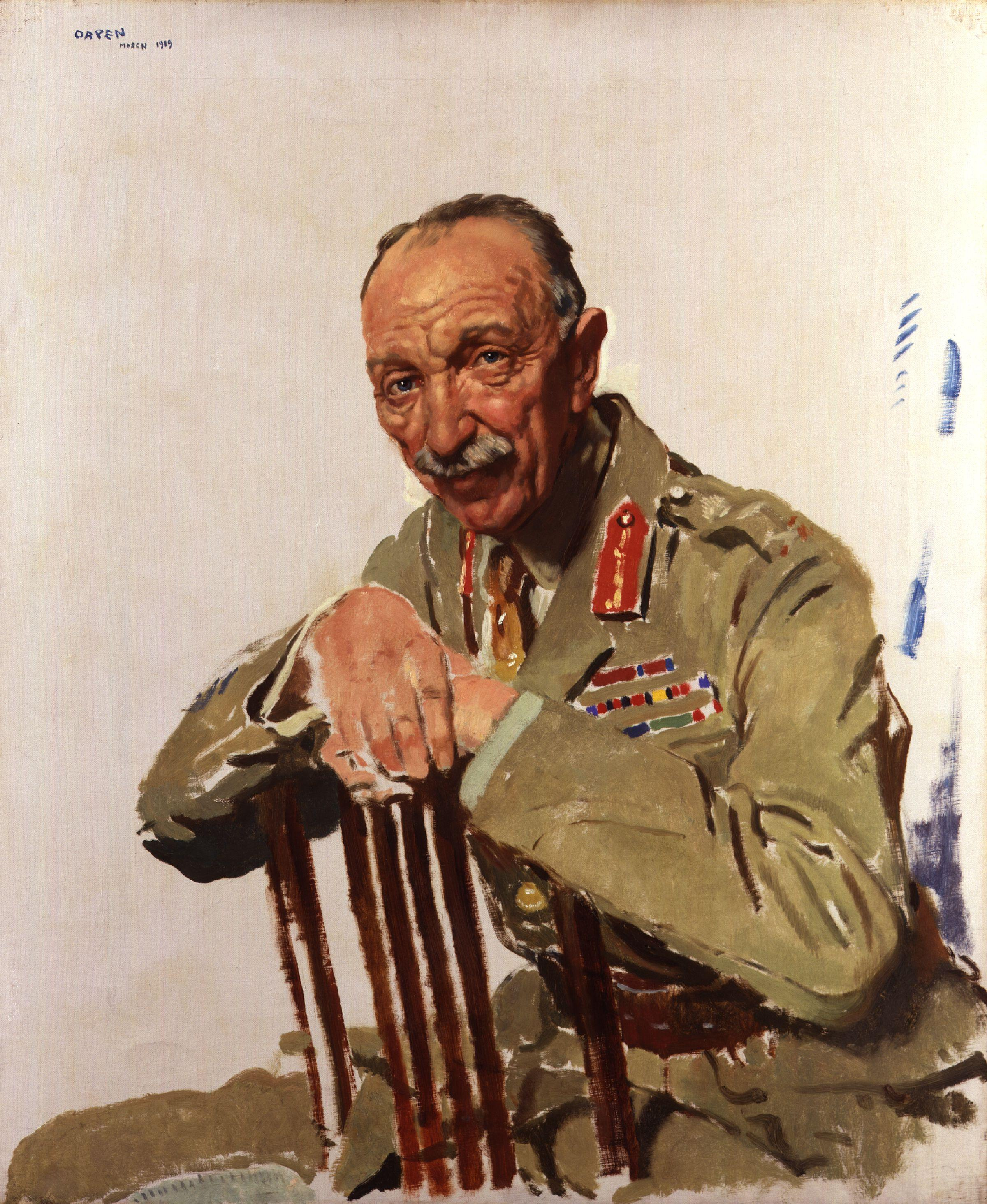 Sir Henry Hughes Wilson, Bt, by Sir William Orpen (died 1931), given to the National Portrait Gallery, London in 1960. All images in this batch have been confirmed as author died before 1939 according to the official death date listed by the NPG.